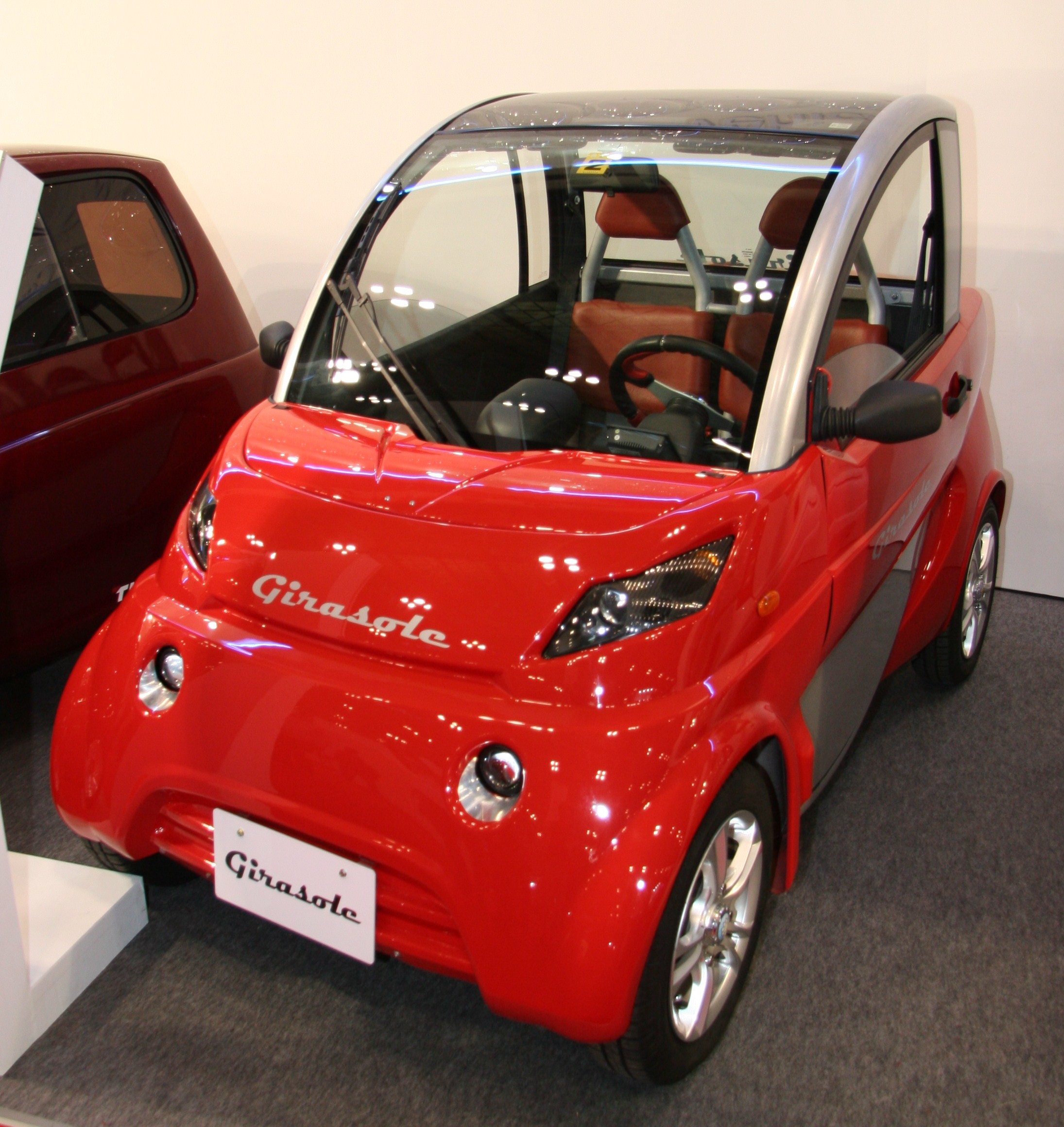 Girasole